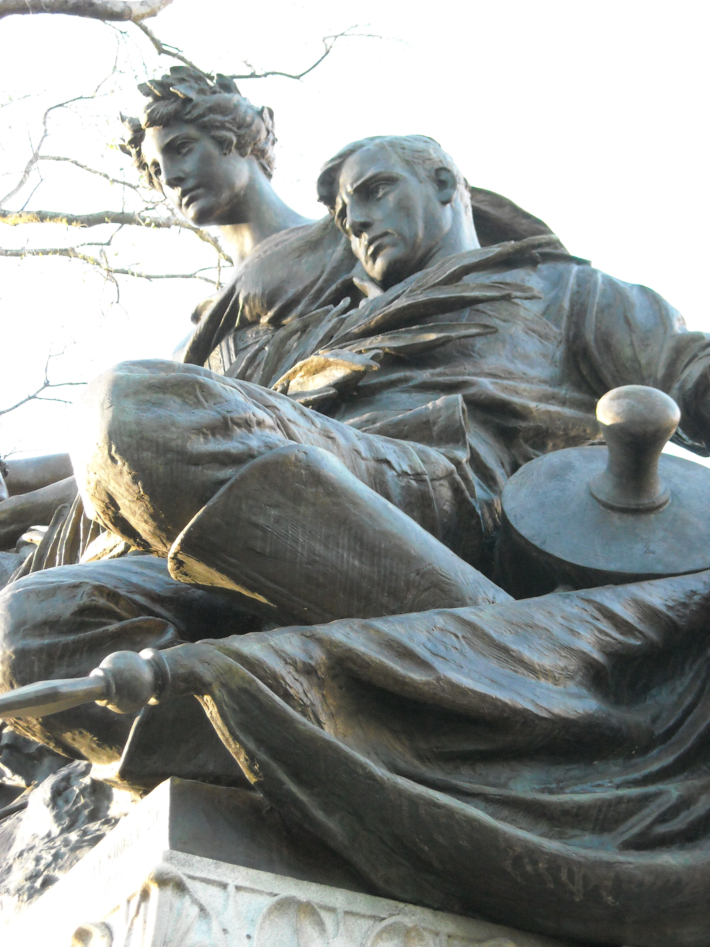 Military defeat